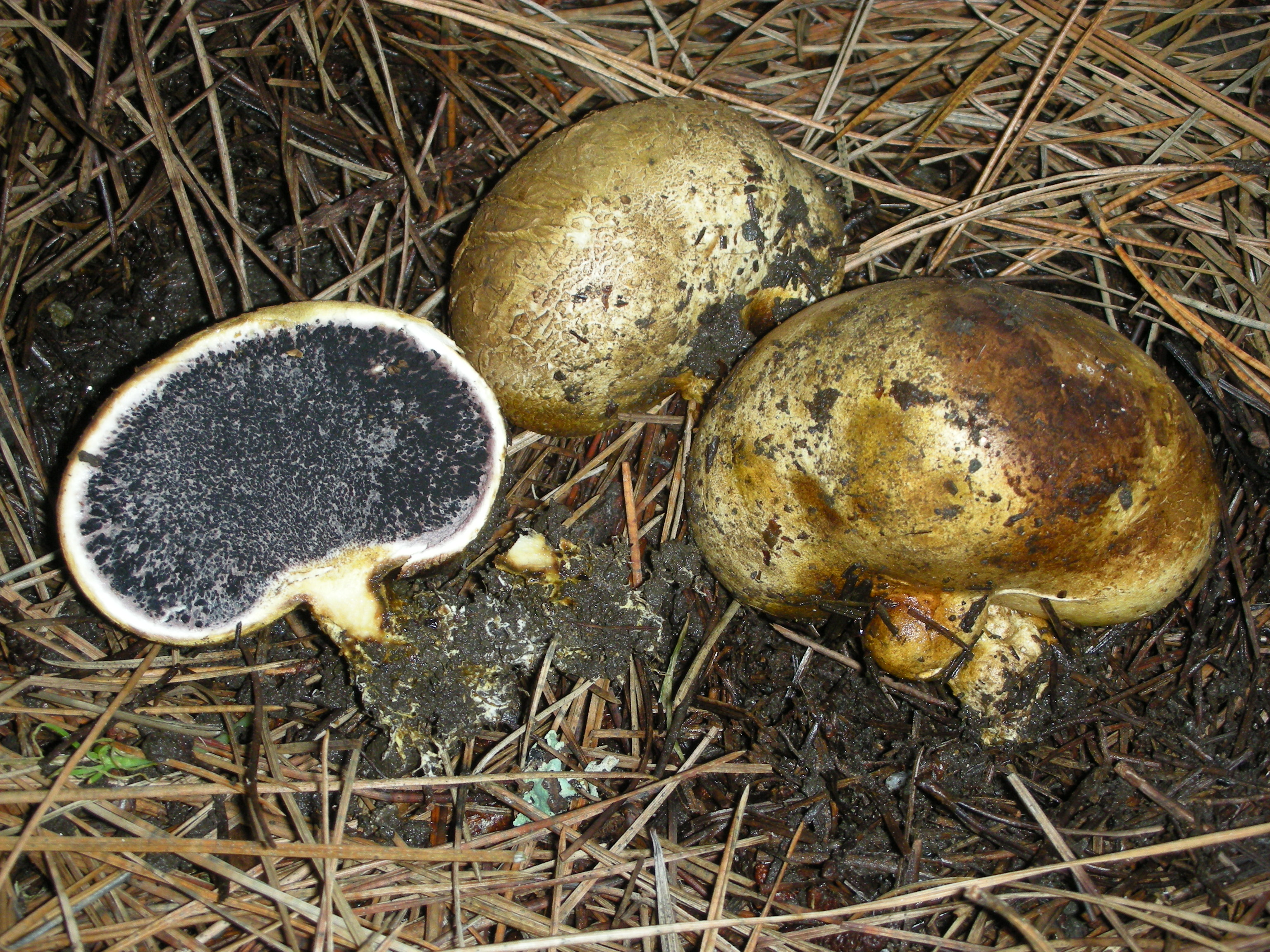 Author: Ron Pastorino Source: This image is Image Number 30138 at Mushroom Observer, a source for mycological images. This tag does not indicate the copyright status of the attached work. A normal copyright tag is still required. See Commons:Licensing.